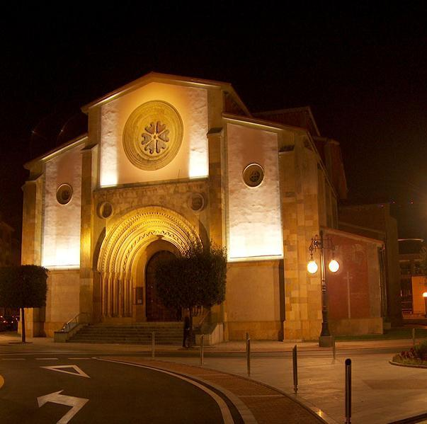 Church of San Pedro. Town: La Felguera, Asturias (Spain)